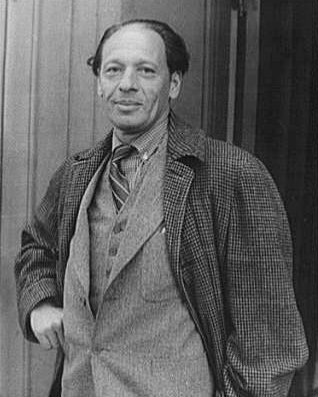 Adolph Rudolphovitch Bolm (September 25, 1884 in Saint Petersburg – April 16, 1951)